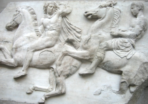 Elgin Marbles, British Museum, London : Frise West, II, 2